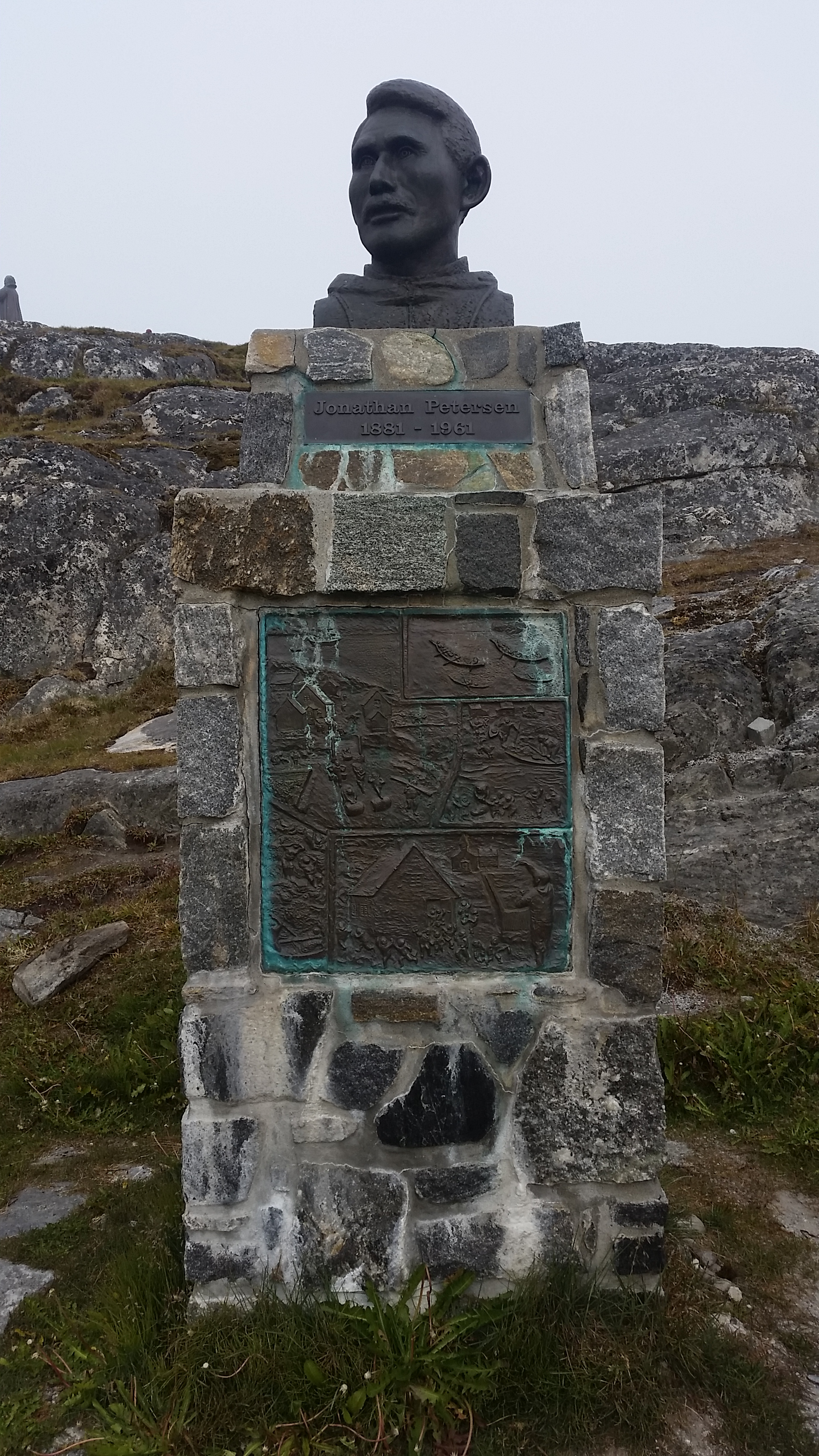 Monument to Jonathan Petersen in Nuuk.